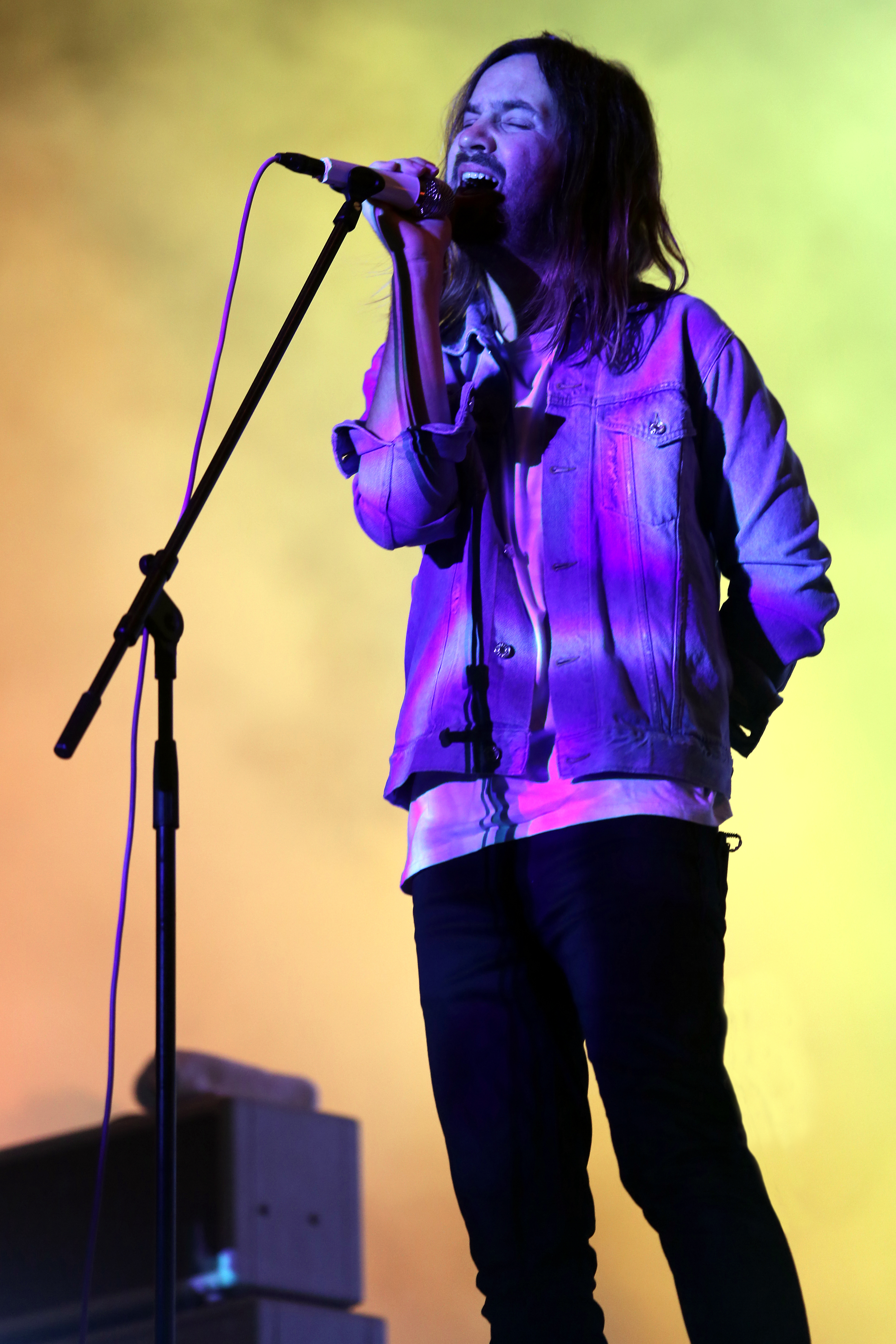 Tame Impala at Southside Festival 2019